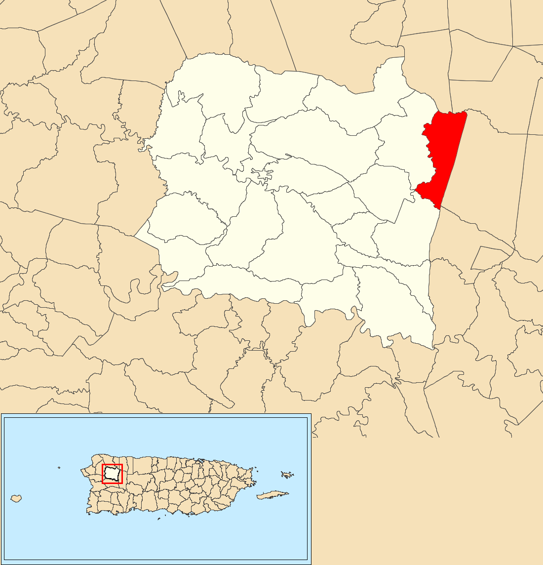 Cibao, San Sebastián, Puerto Rico locator map